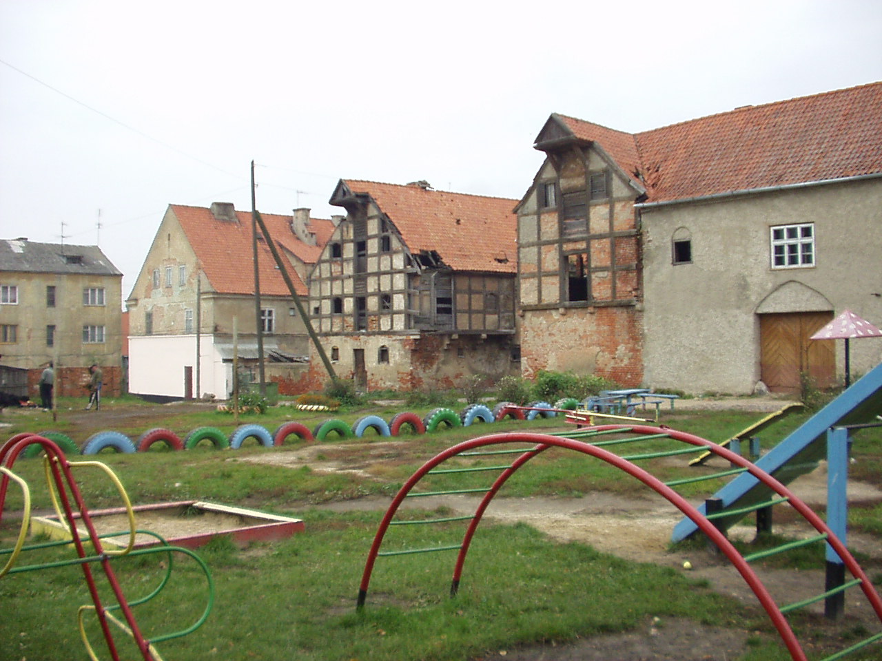 Zheleznodorozhny town in Kaliningrad oblast, German-built houses in central part